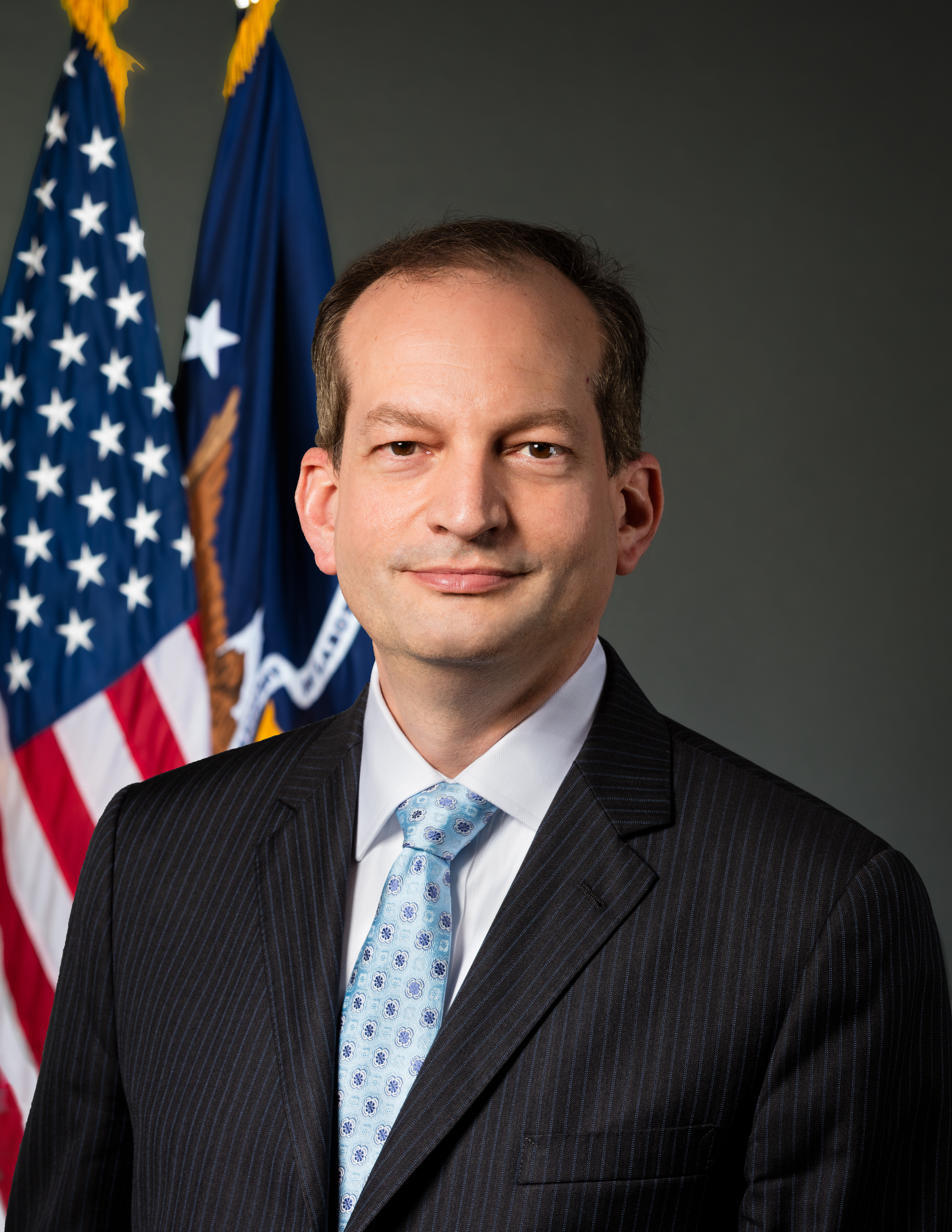 1 May 2017 - Washington, D.C. - U.S. Secretary of Labor R. Alexander Acosta Official Photograph. Official Department of Labor Photograph*** Photographs taken by the federal government are generally part of the public domain and may be used, copied and distributed without permission. Unless otherwise noted, photos posted here may be used without the prior permission of the U.S. Department of Labor. Such materials, however, may not be used in a manner that imply any official affiliation with or endorsement of your company, website or publication. Photo Credit: Department of Labor Shawn T Moore